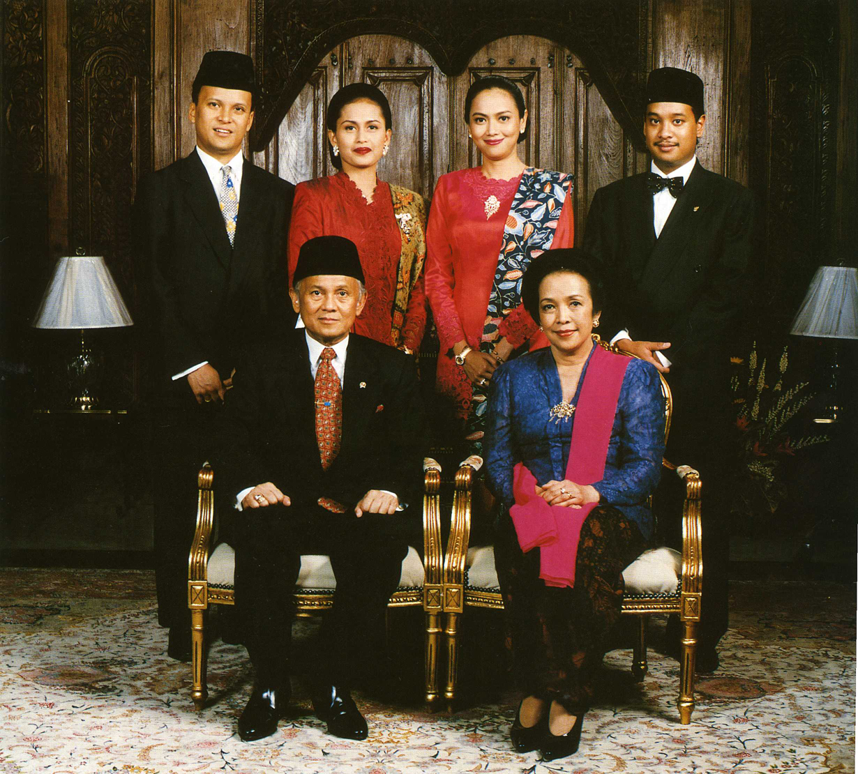 Portrait of the family of Bacharuddin Jusuf Habibie